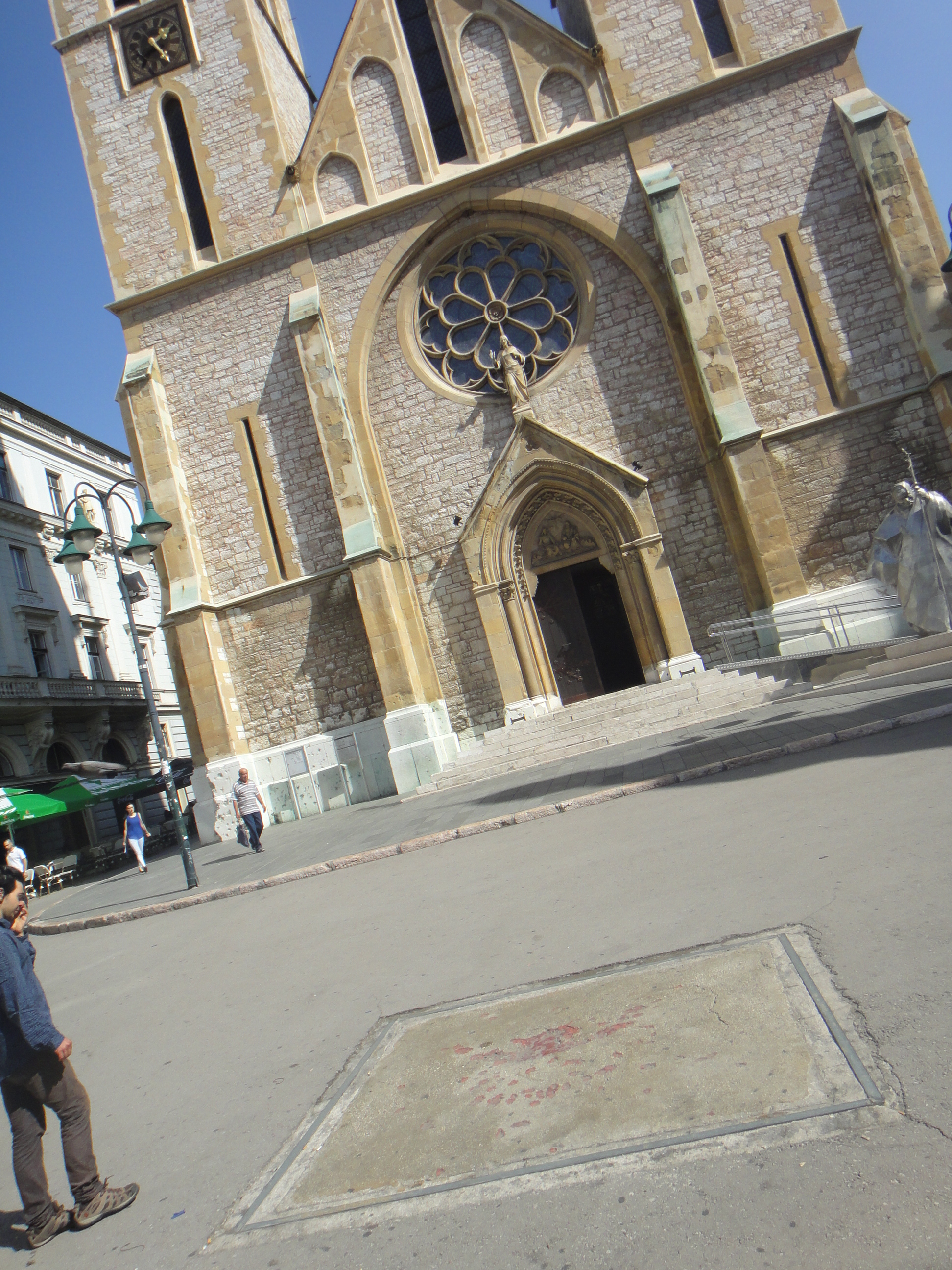 A Sarajevo Rose in front of Sacred Heart Cathedral